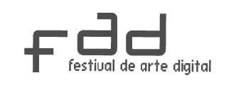 Design mark of FAD.